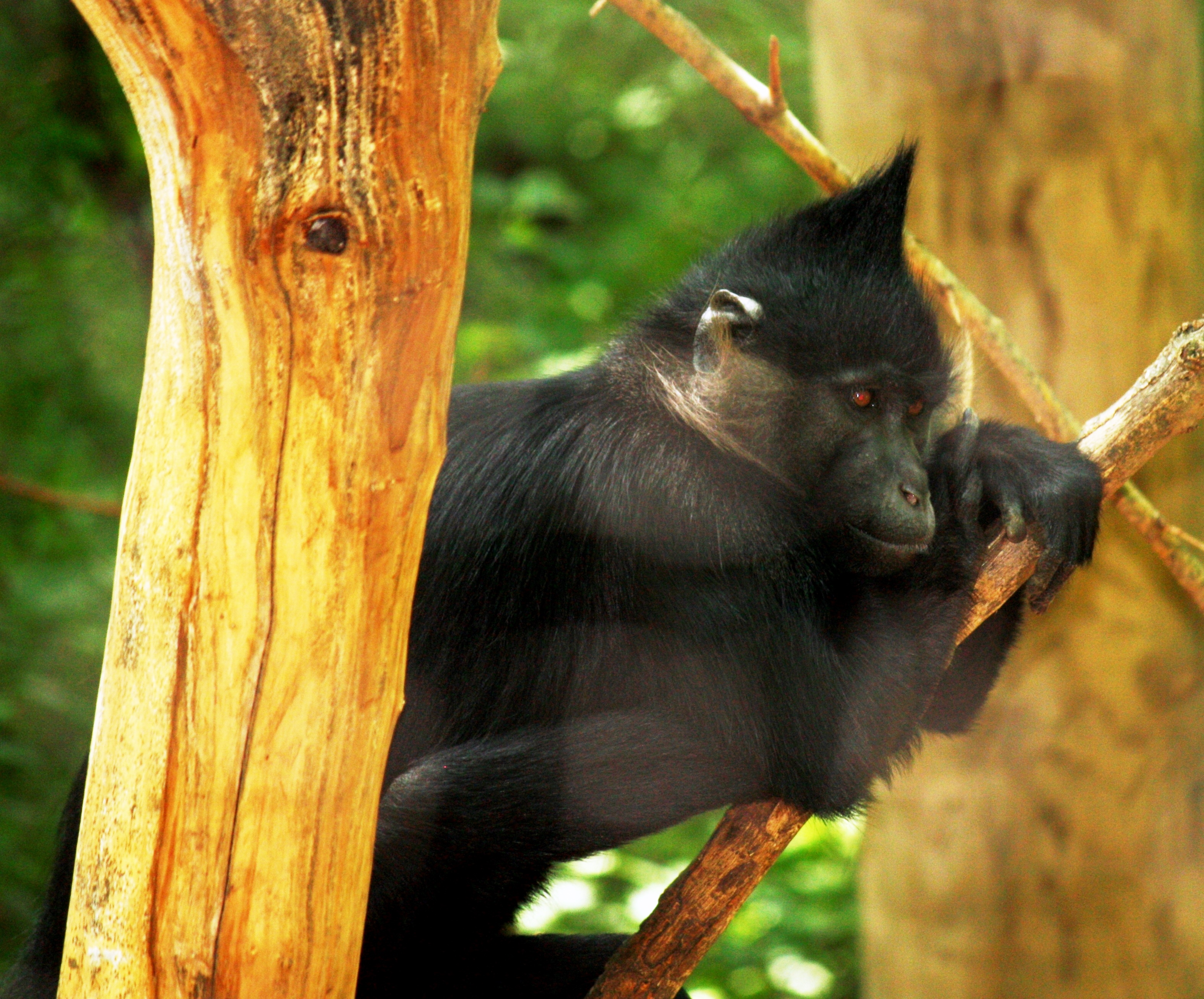 Black Mangabey Lophocebus aterrimus at Binder Park Zoo in Battle Creek, Michigan